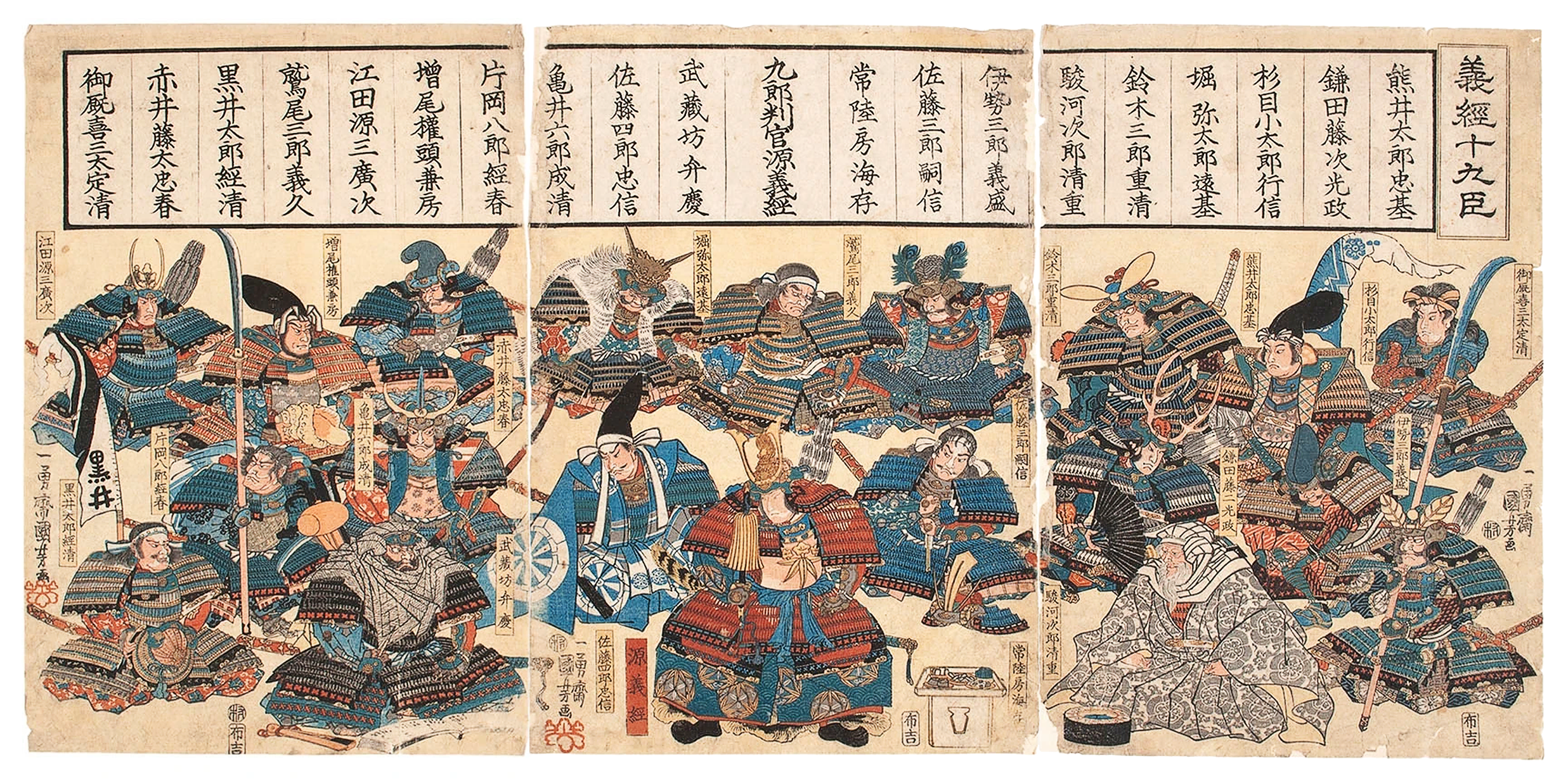 The Genealogy of the Minamoto Clan, Ukiyo-e.